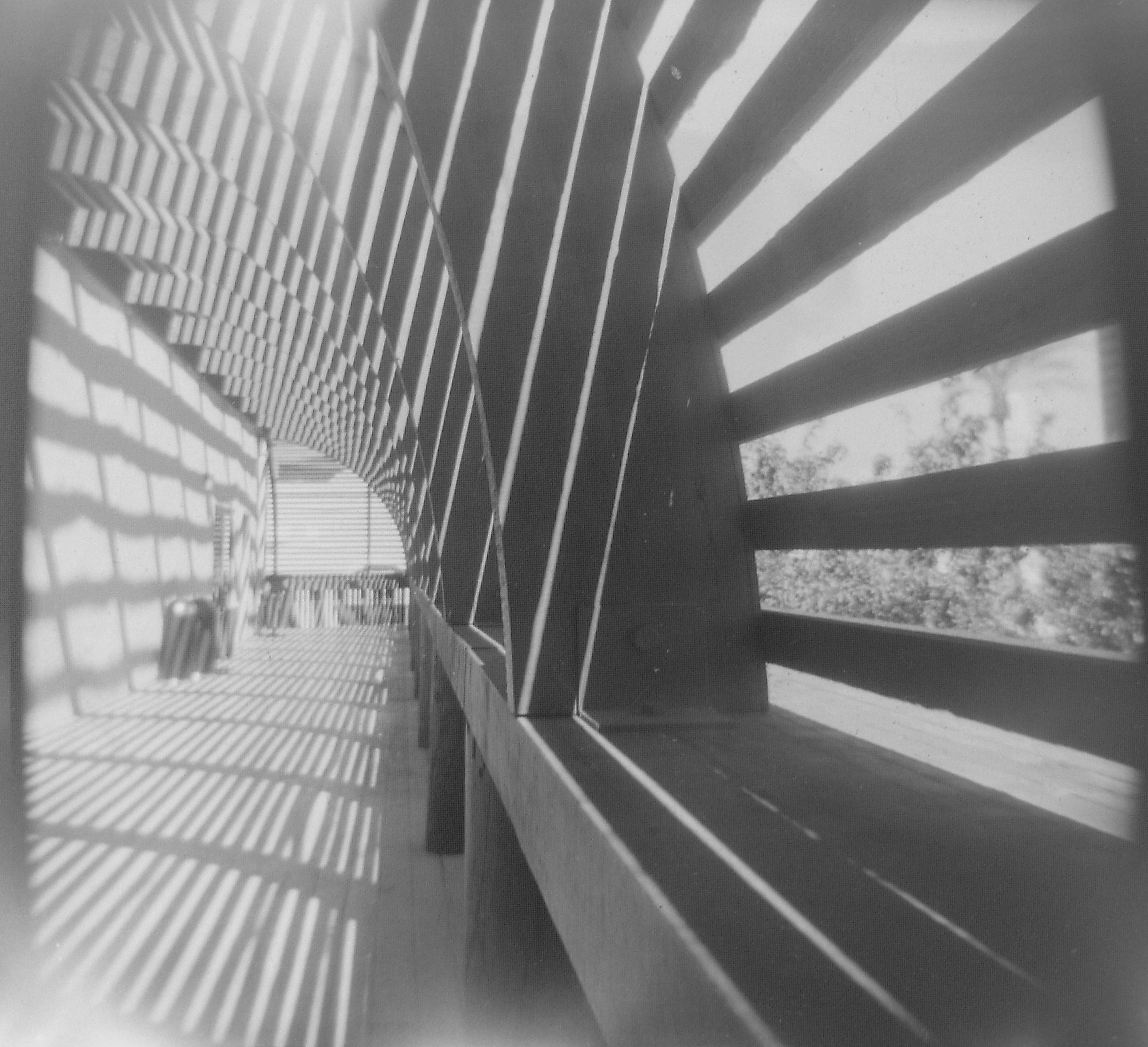 This is a developed image from a Holga 120 with greyscale film.